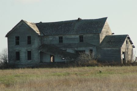 Humphrey Farm House at Grenadier Island, New York.